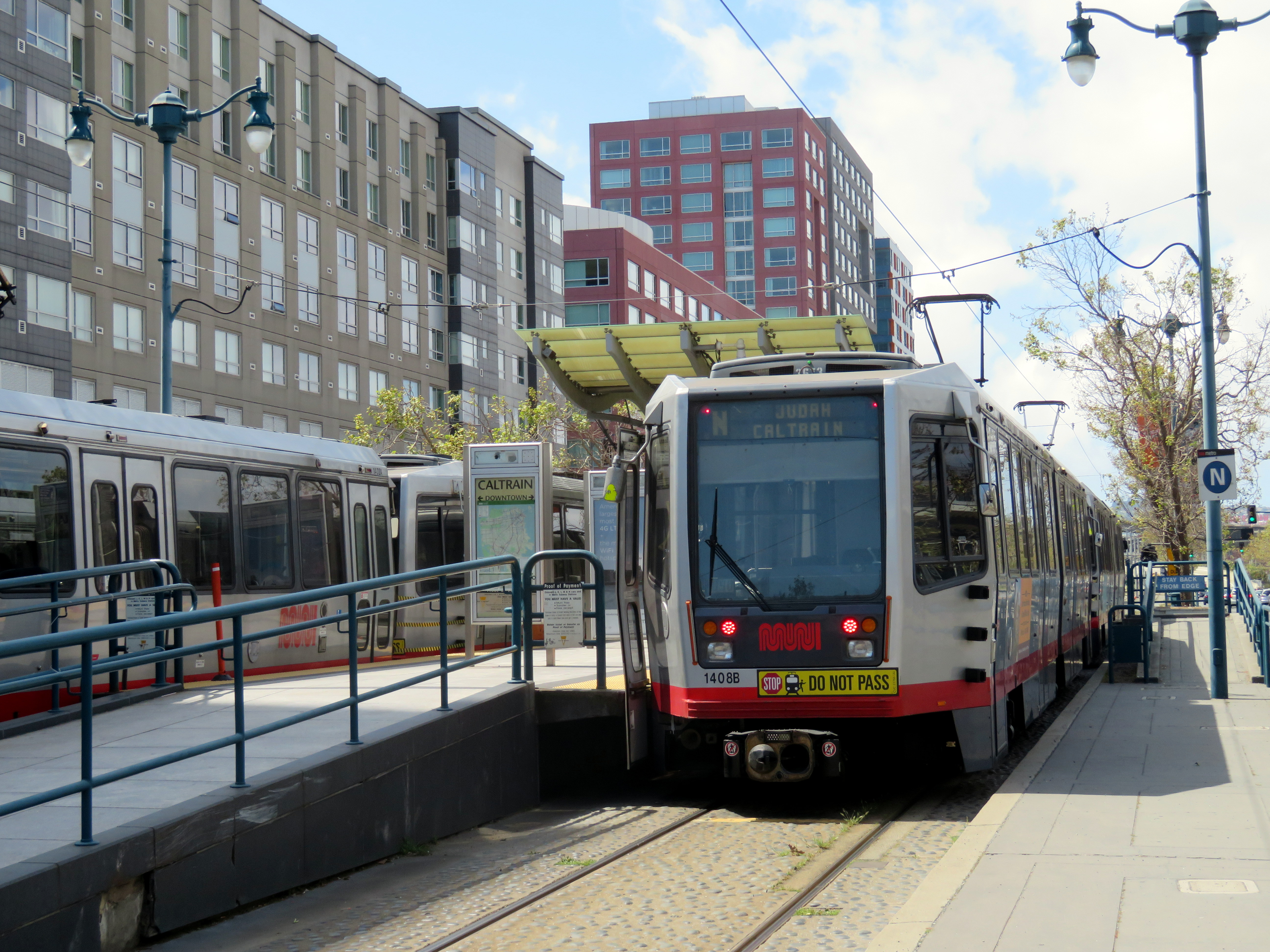 N Judah trains at 4th and King station in April 2018